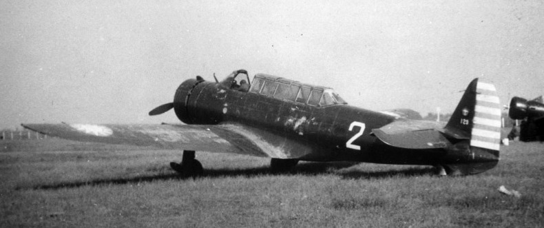 PictionID:45406569 - Catalog:16_006802 - Title:Vultee V-11 in China Air Force - Filename:16_006802.TIF - Image from the Ray Wagner Collection. Ray Wagner was Archivist at the San Diego Air and Space Museum for several years and is an author of several books on aviation --- ---Please Tag these images so that the information can be permanently stored with the digital file.---Repository: San Diego Air and Space Museum